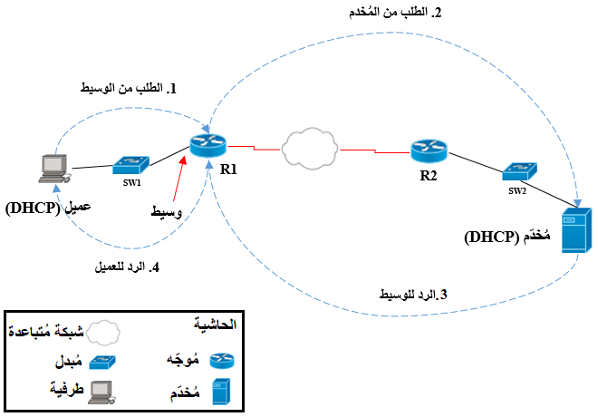 مسار رسائل بروتوكول التهيئة الآليّة للمضيفين (DHCP) عند استخدام خيار الوسيط.